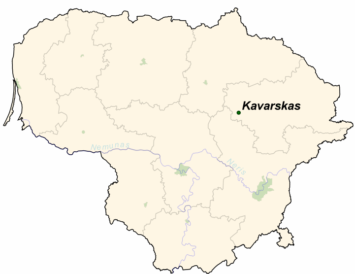 Kavarskas on the map of Lithuania